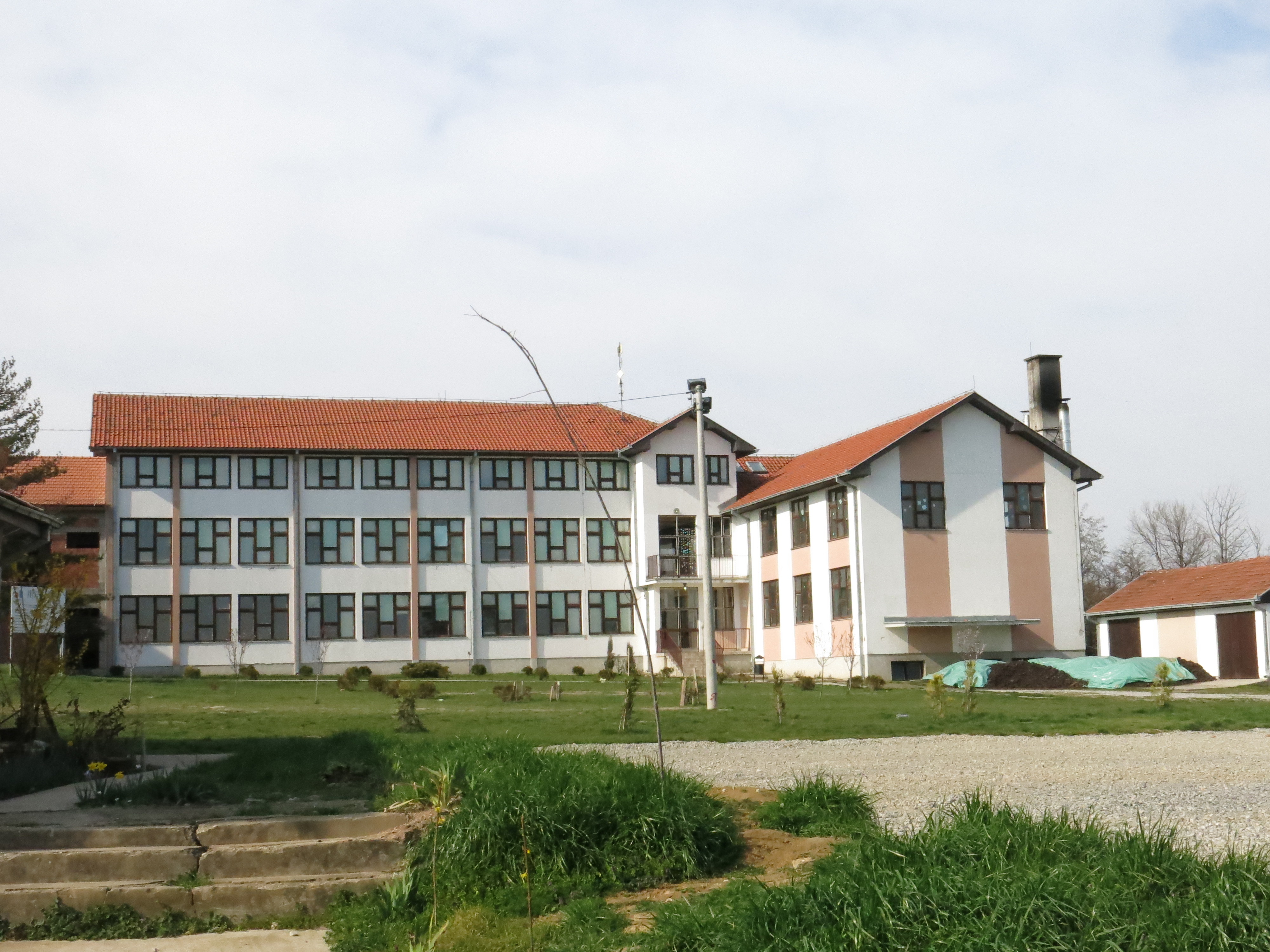 Volujac, Elementary school Dositej Obradović